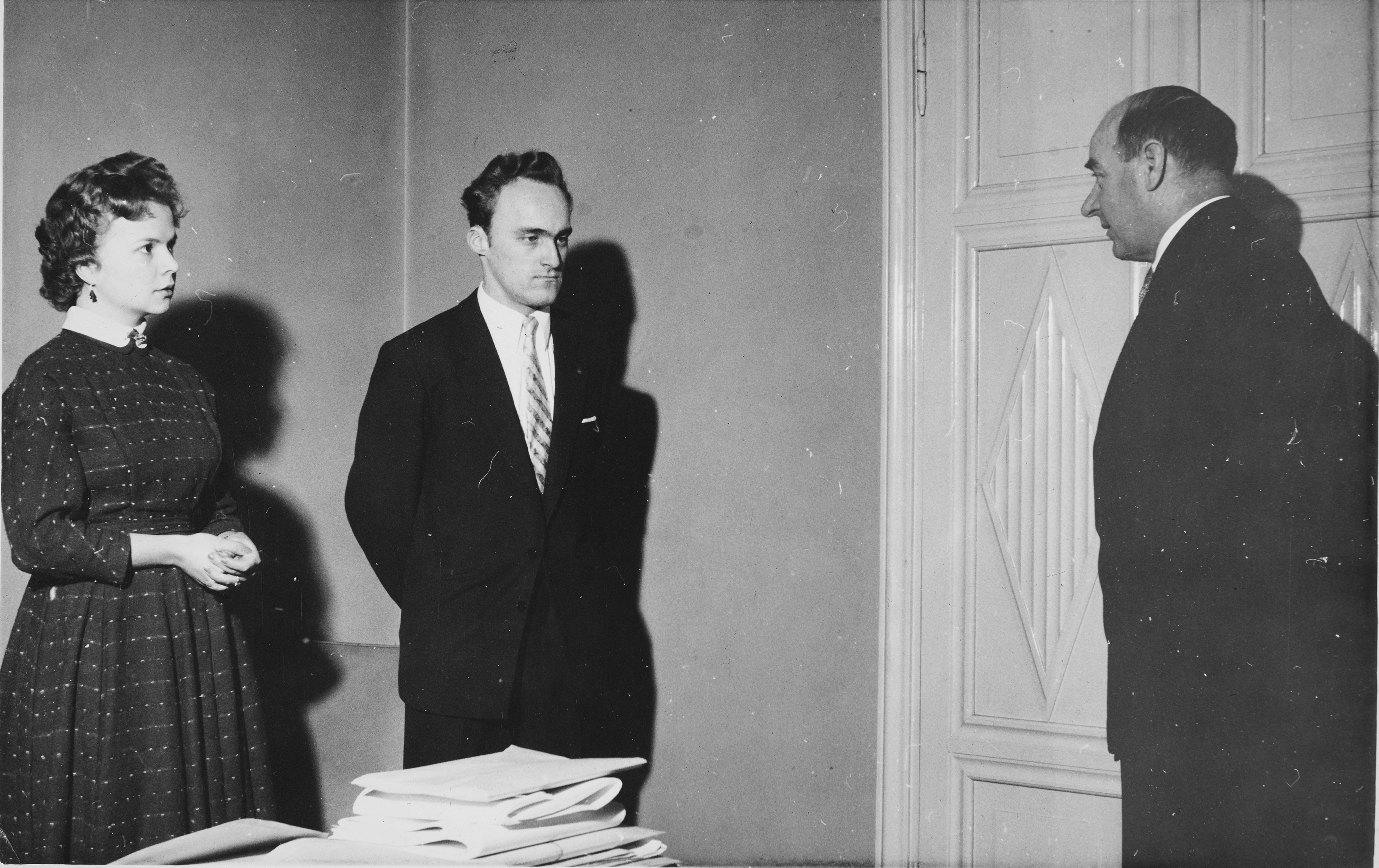 Photograph of the Finnish scholar Kari Uusitalo (1933–) talking to professor Lauri Aadolf Puntila (to the right). To the left, an unindentified woman student of Helsinki University. Uusitalo represents the student society Helsingin yliopiston Ylioppilasneekerit ry.